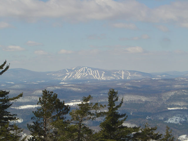 Okemo